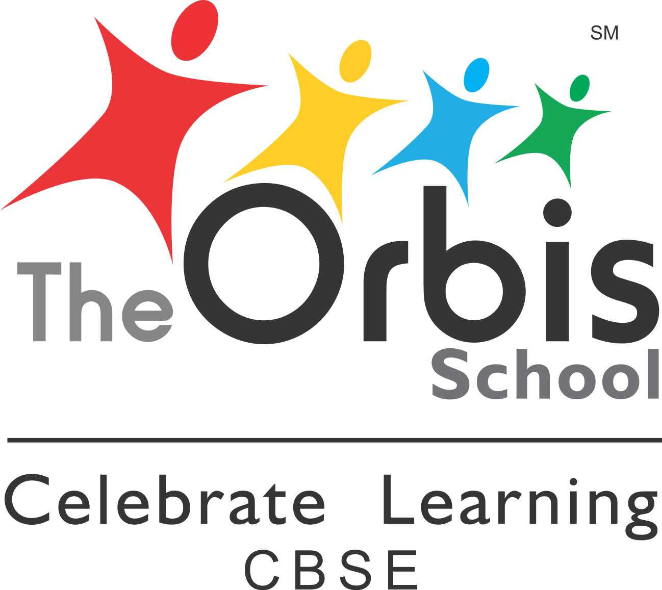 The Orbis School